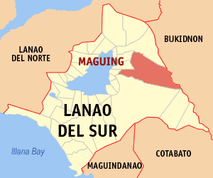 Map of the Lanao del Sur showing the location of Maguing